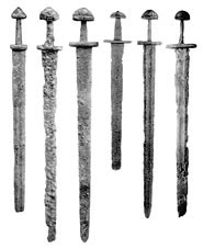 Slavic Swords